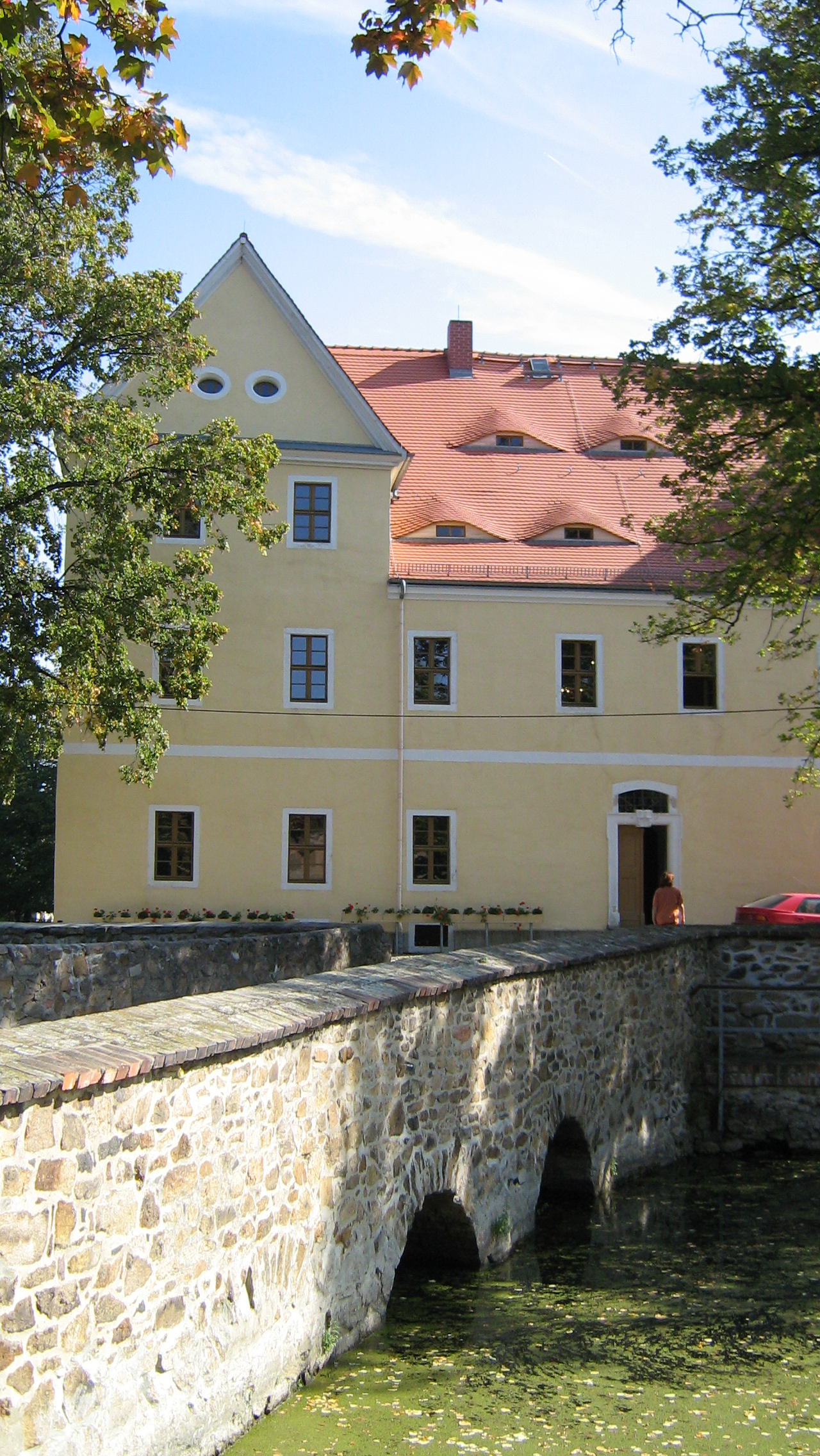 The manor house Herrenhaus Röcknitz